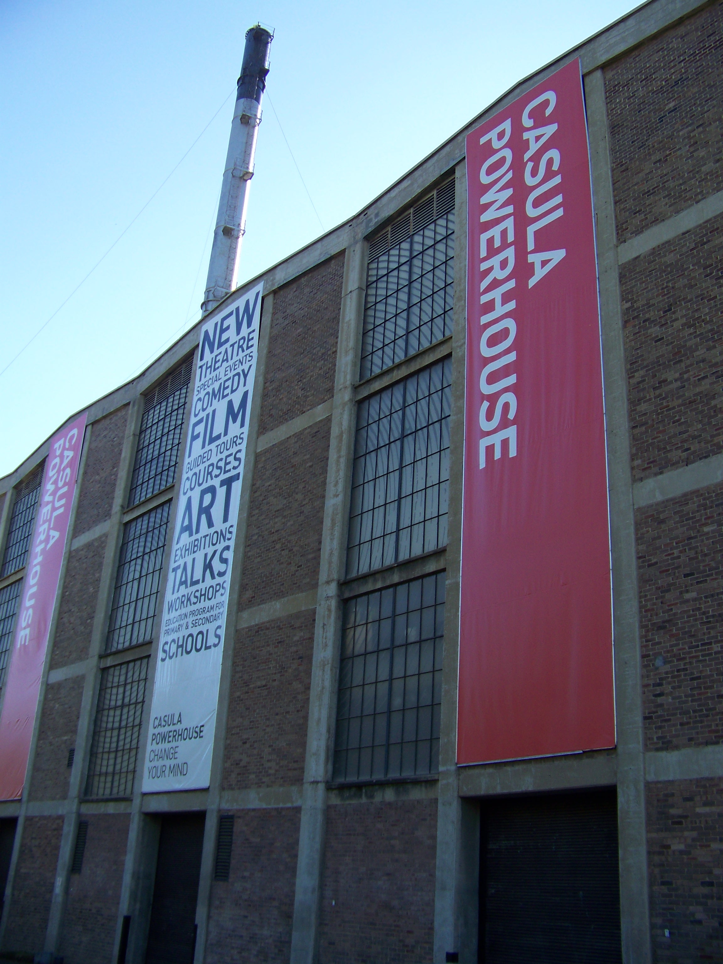 Casula Powerhouse Banners